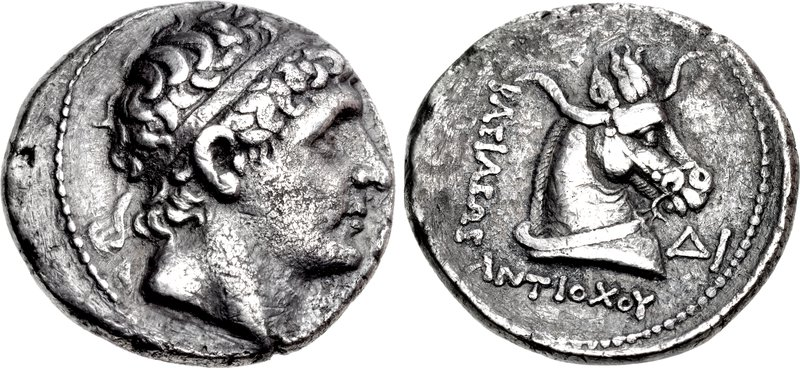 SELEUKID KINGS of SYRIA. Antiochos I Soter. 281-261 BC. AR Tetradrachm (27mm, 15.58 g, 6h). Aï Khanoum mint. Diademed head with idealized features right / BΑΣΙΛΕΩΣ to left, ANTIOXOY below, horned and bridled horse head right with horn-like forelock; ΔI to right. SC Ad102 (this coin referenced); SCB –; HGC 9, 132. Good VF, toned, minor surface roughness. Extremely rare, and the only published specimen of this issue. Ex New York Sale IV (17 January 2002), lot 240. The authors of Seleucid Coins (Pt. I, Vol. I, p. 114), following Babelon and Newell, suggest that this horse represents not Alexander’s steed, Bukephalos, but Seleukos I’s horse that in 315 BC carried him from Babylon to Egypt, where he found asylum with Ptolemy I. Seleukos bestowed extraordinary honors on this animal, including deification and a gilt statue at Antioch, which depicted the horse’s head, a helmet, and a dedicatory inscription. Most likely, Seleukos chose this type to honor both his own horse and the legacy of Bukephalos–an obvious link to the legacy of Alexander the Great that was always first and foremost in the minds of the Diadochoi.